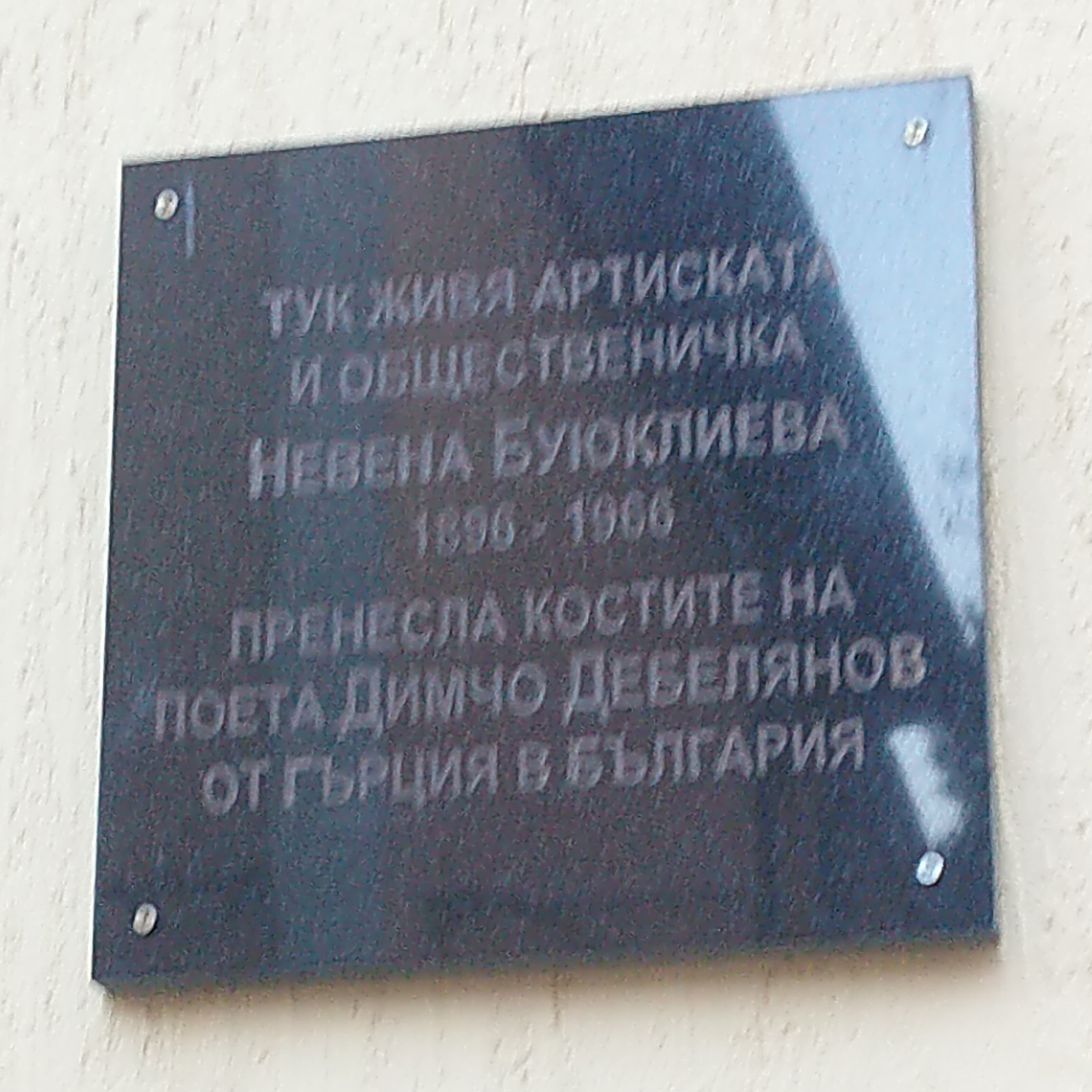 Memorial plaque of Nevena Buyuklieva, 4 Nikolay Pavlovich Str, Sofia